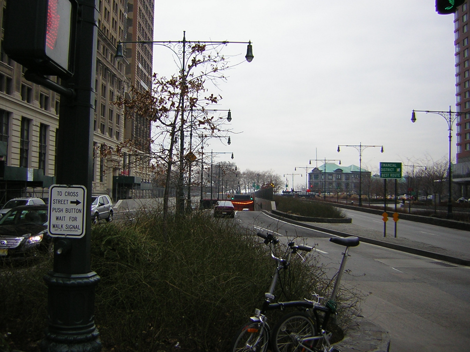 Exit 1 of the West Side Highway, looking south into the tunnel under Battery Park